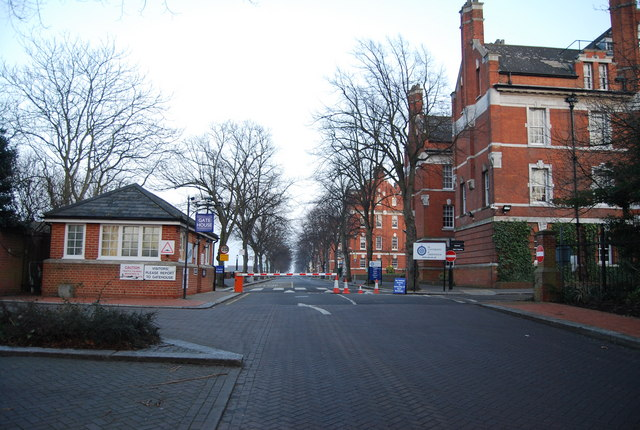 Gate House, Universities at Medway Campus On this campus are buildings belonging to The University of Kent, Christchurch University,Greenwich University & Mid kent College. The site was originally HMS Pembroke Naval Barracks, which closed in 1984